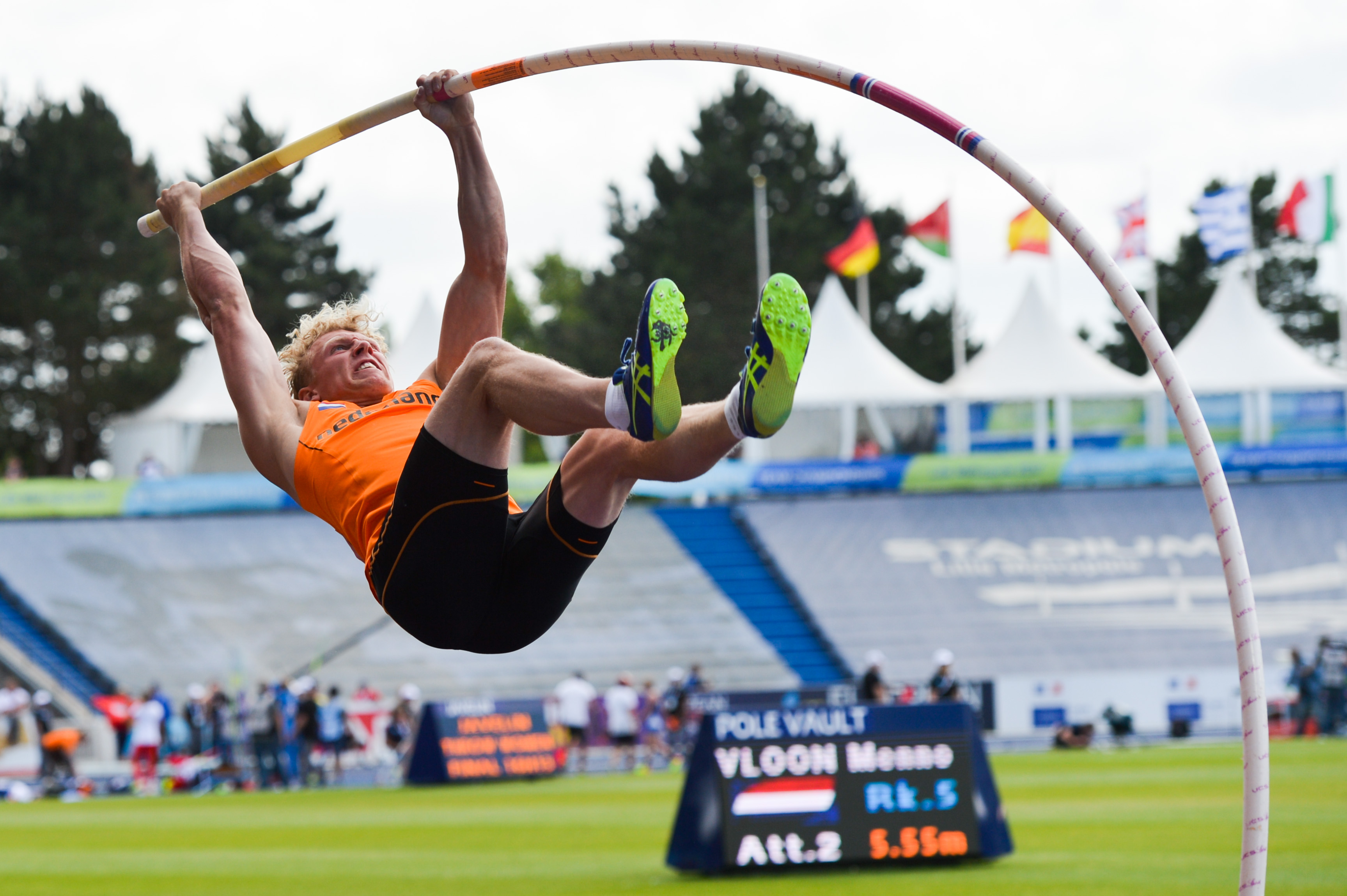 Menno Vloon in action at the 2017 European Championships for national teams